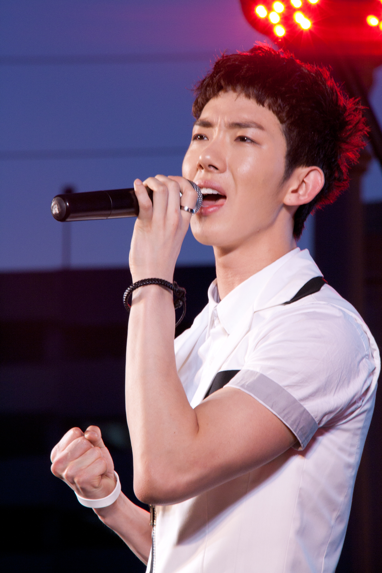 2AM in Manila